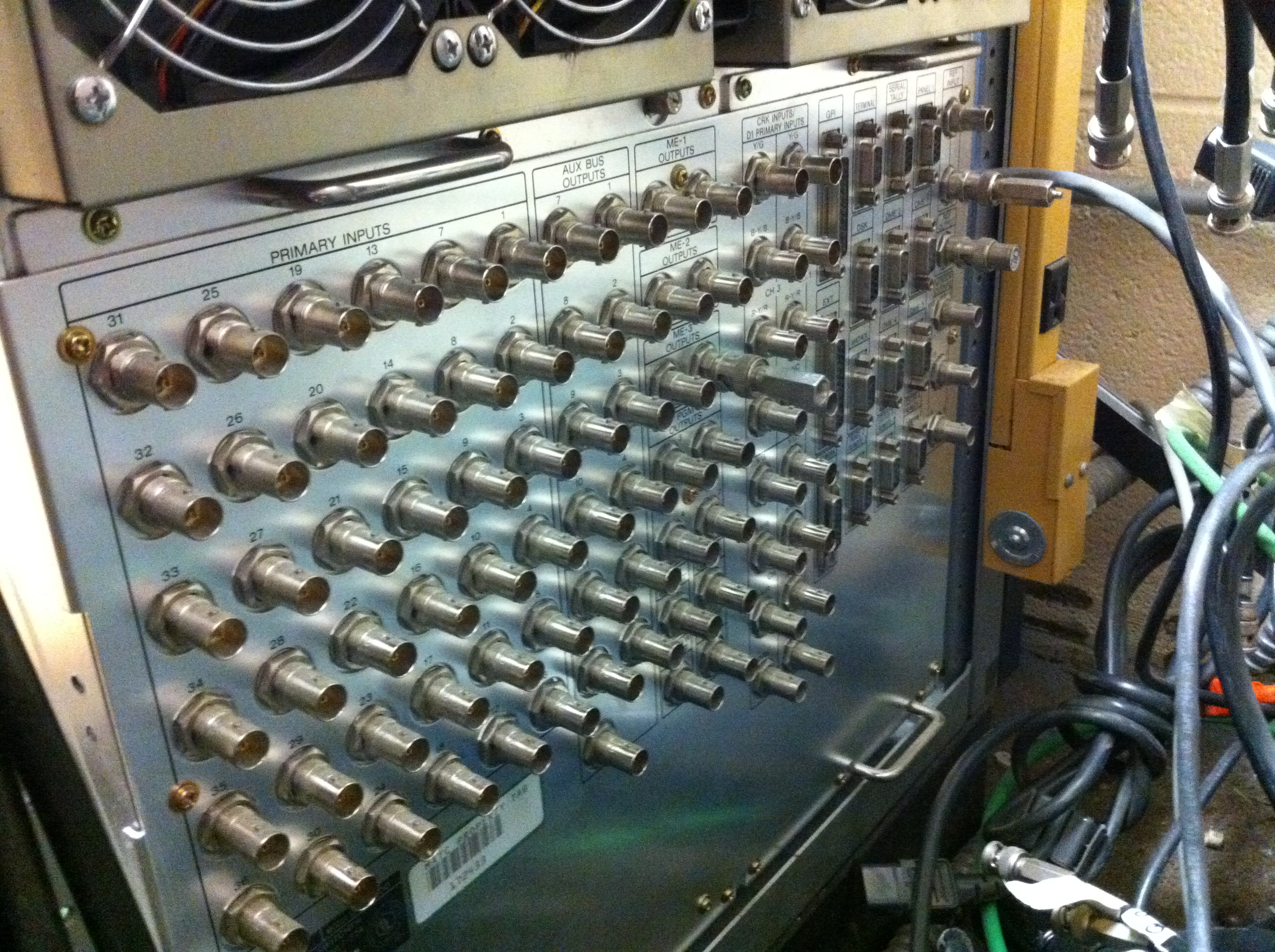 The rear connection panel of a video switcher (vision mixer) processor unit with cables removed, showing input and output banks with BNC connectors. Sony DVS-7000.